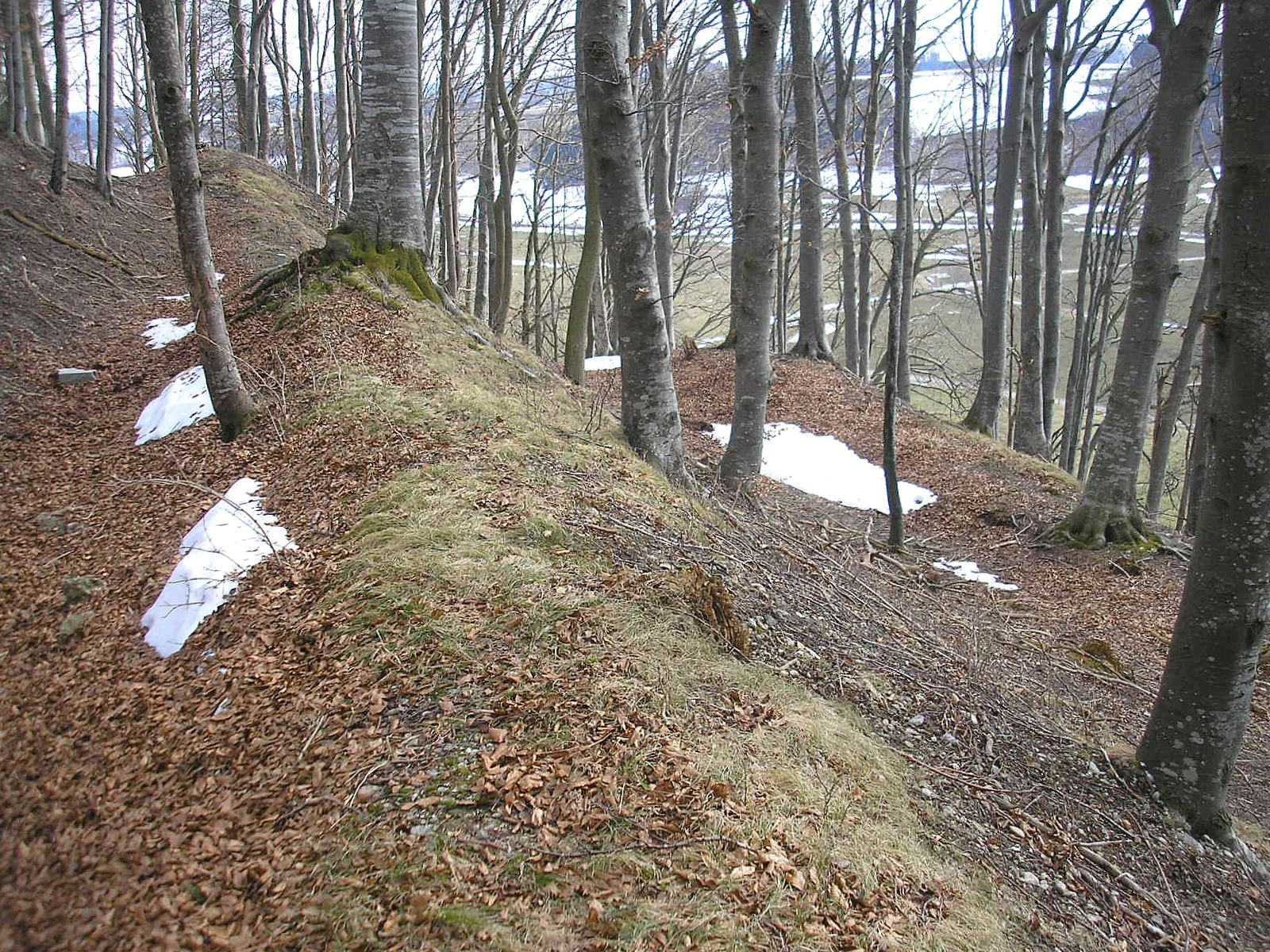 Early Middle Ages hill fort near Romatsried (Eggenthal, Landkreis Ostallgäu, Bavaria, Germany). The south western earthworks